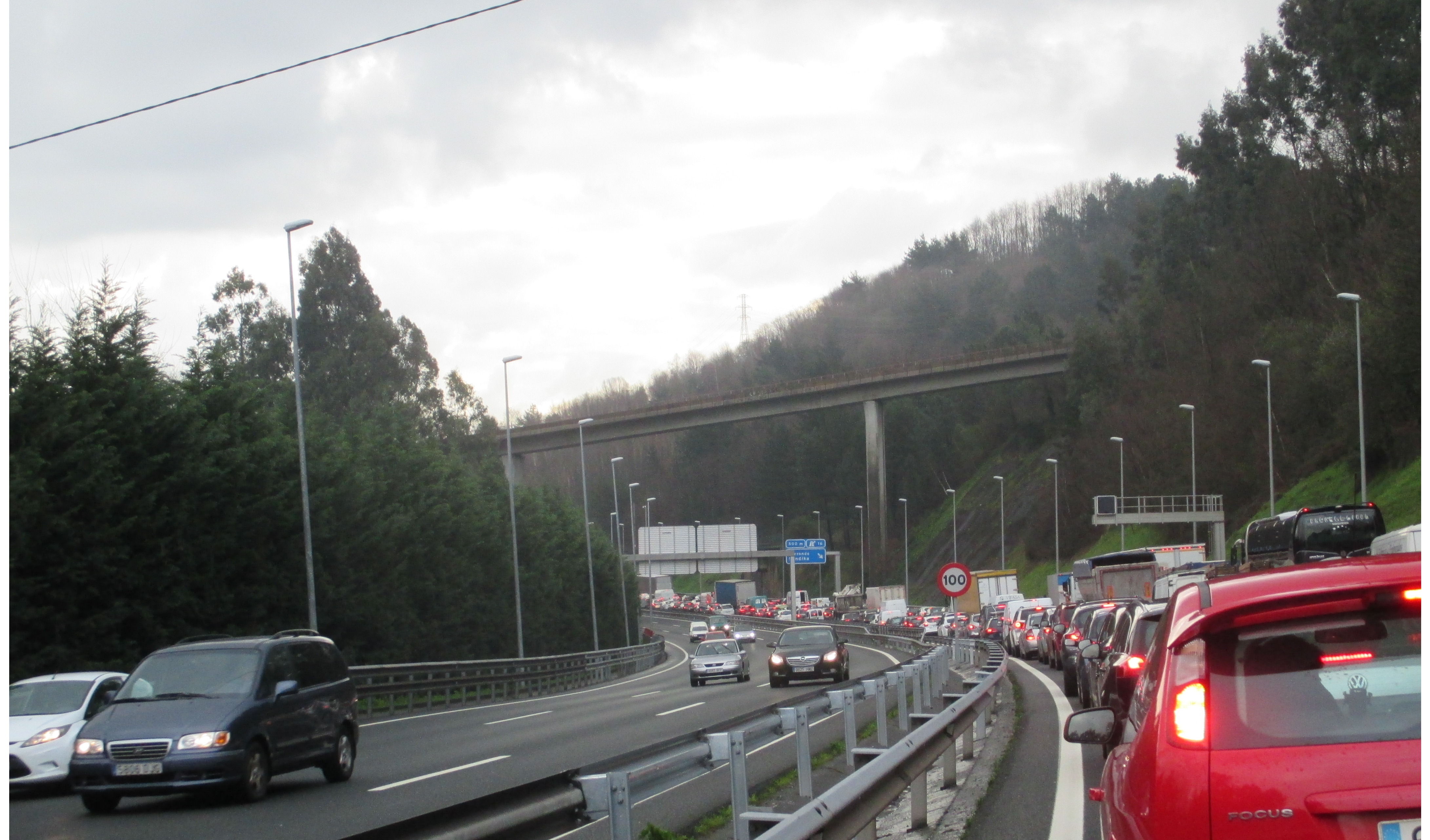 Traffic jam in N-637 national road (Passage Way of Txorierri).